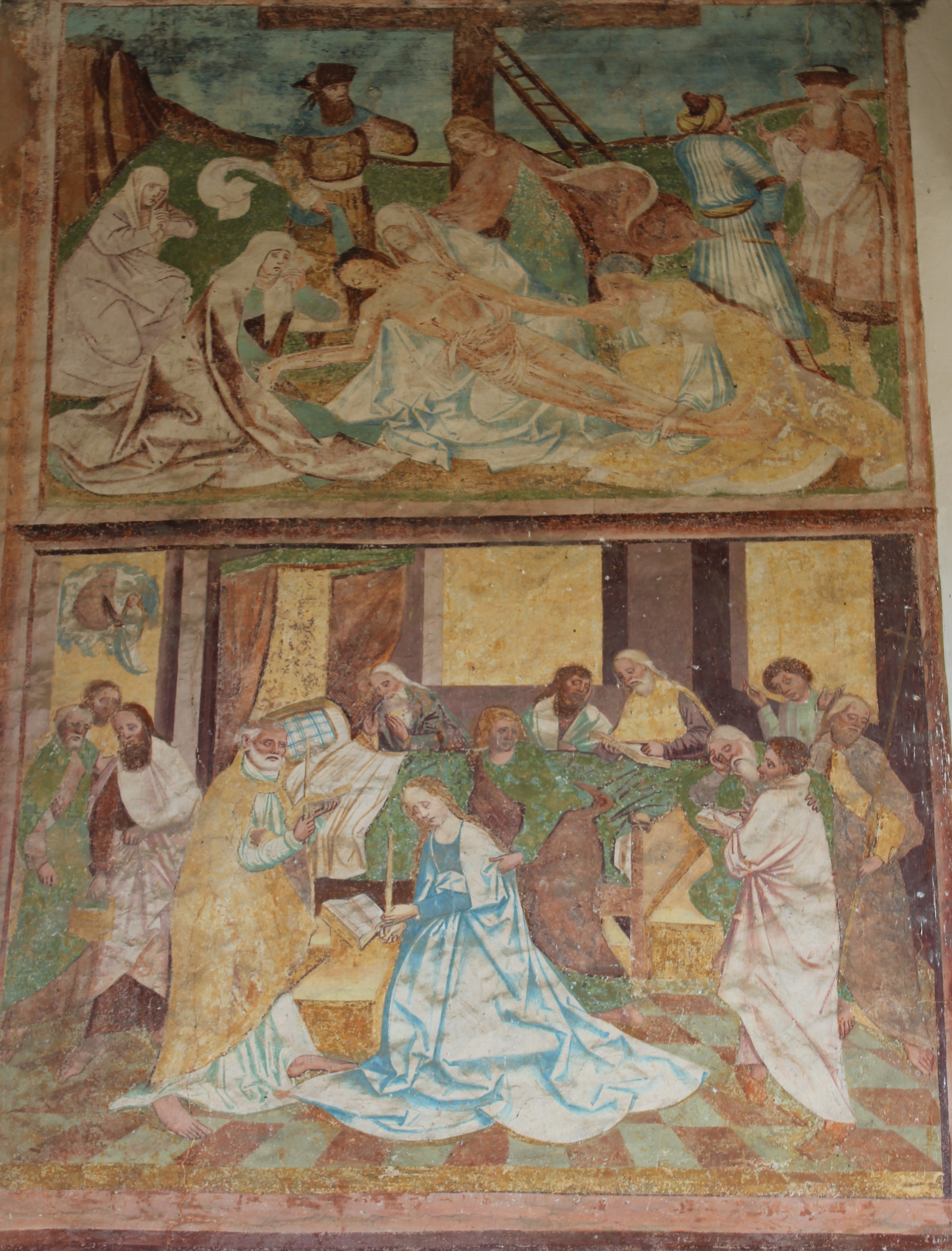 Maria-Dorn-church in Eisenkappel-Vellach